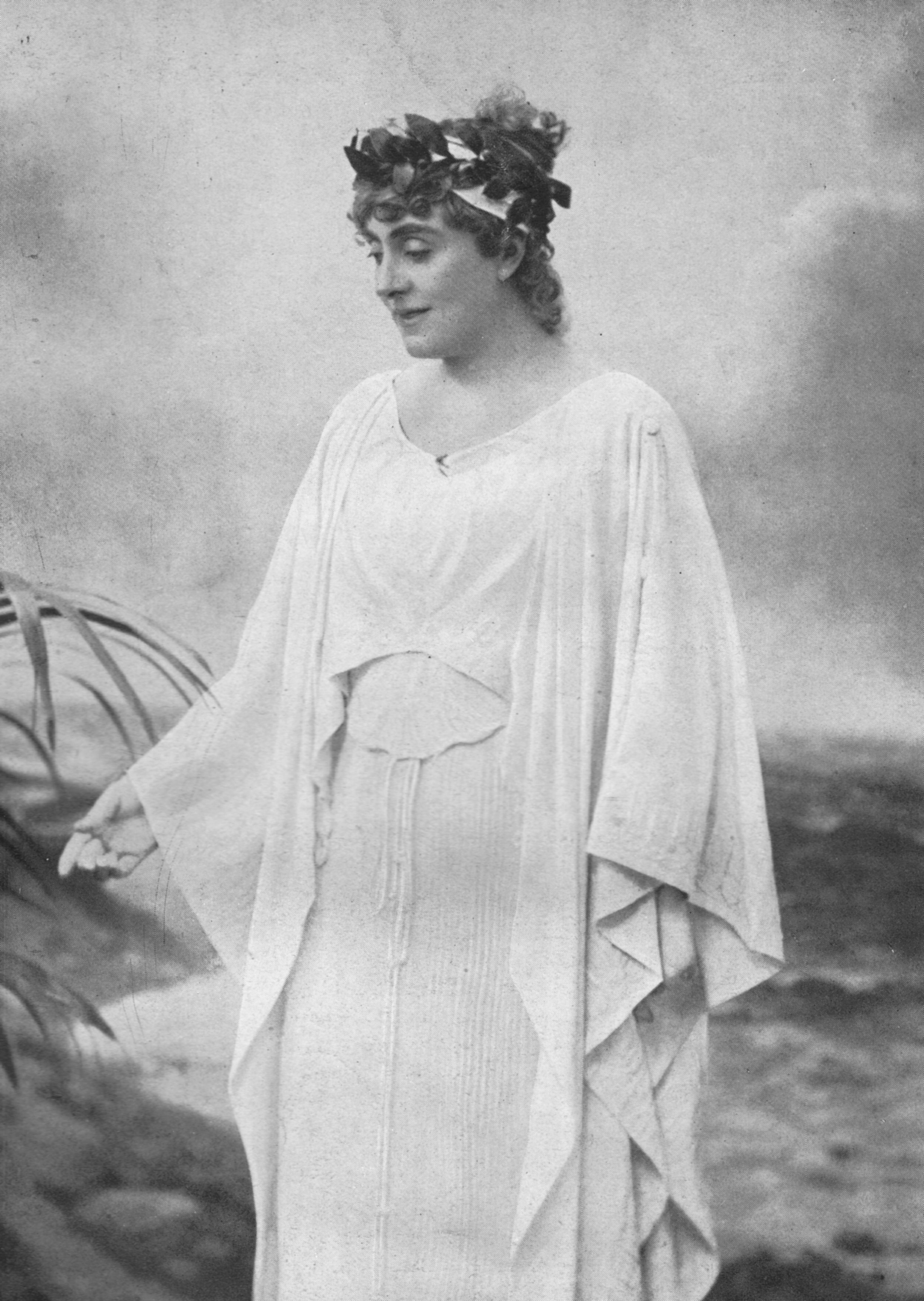 Actress Stella Freifrau von Hohenfels-Berger